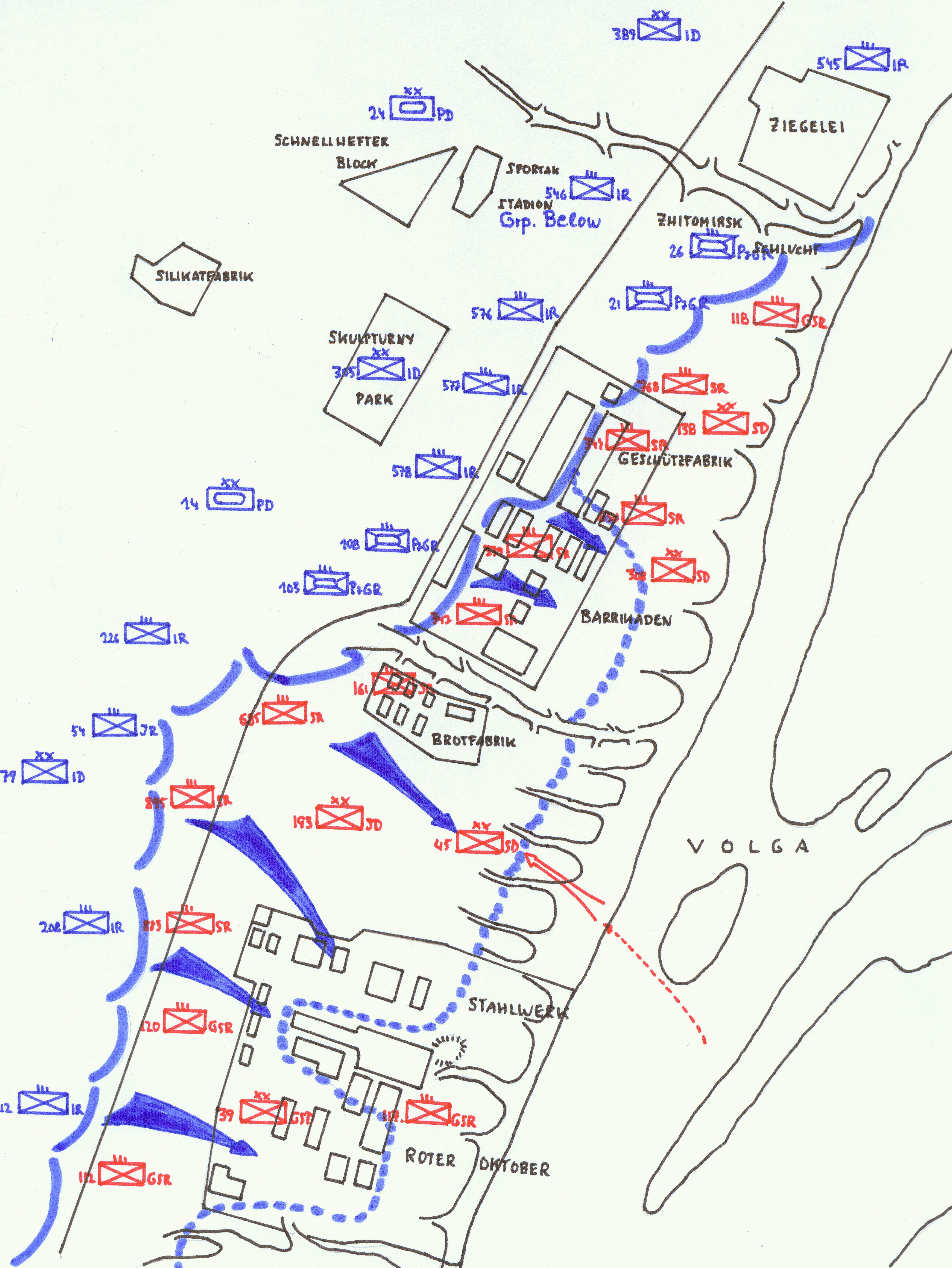 sketchline drawn-out according to Glantz